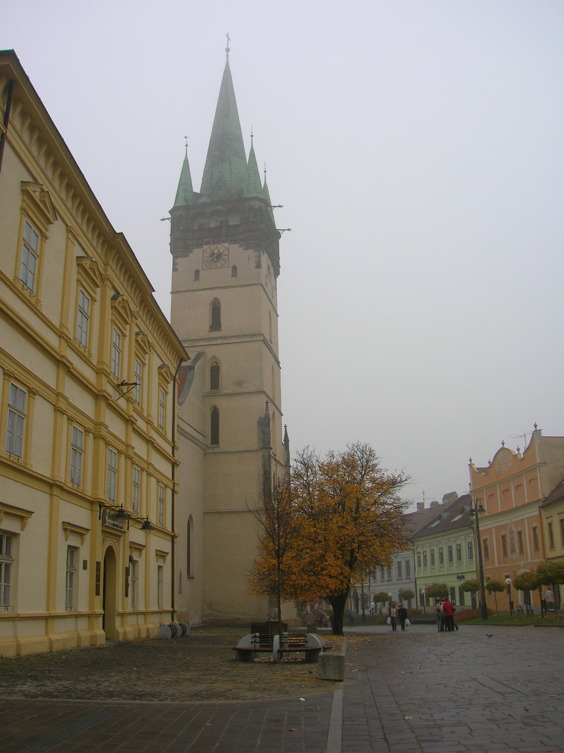 The main square in Prešov in Slovakia